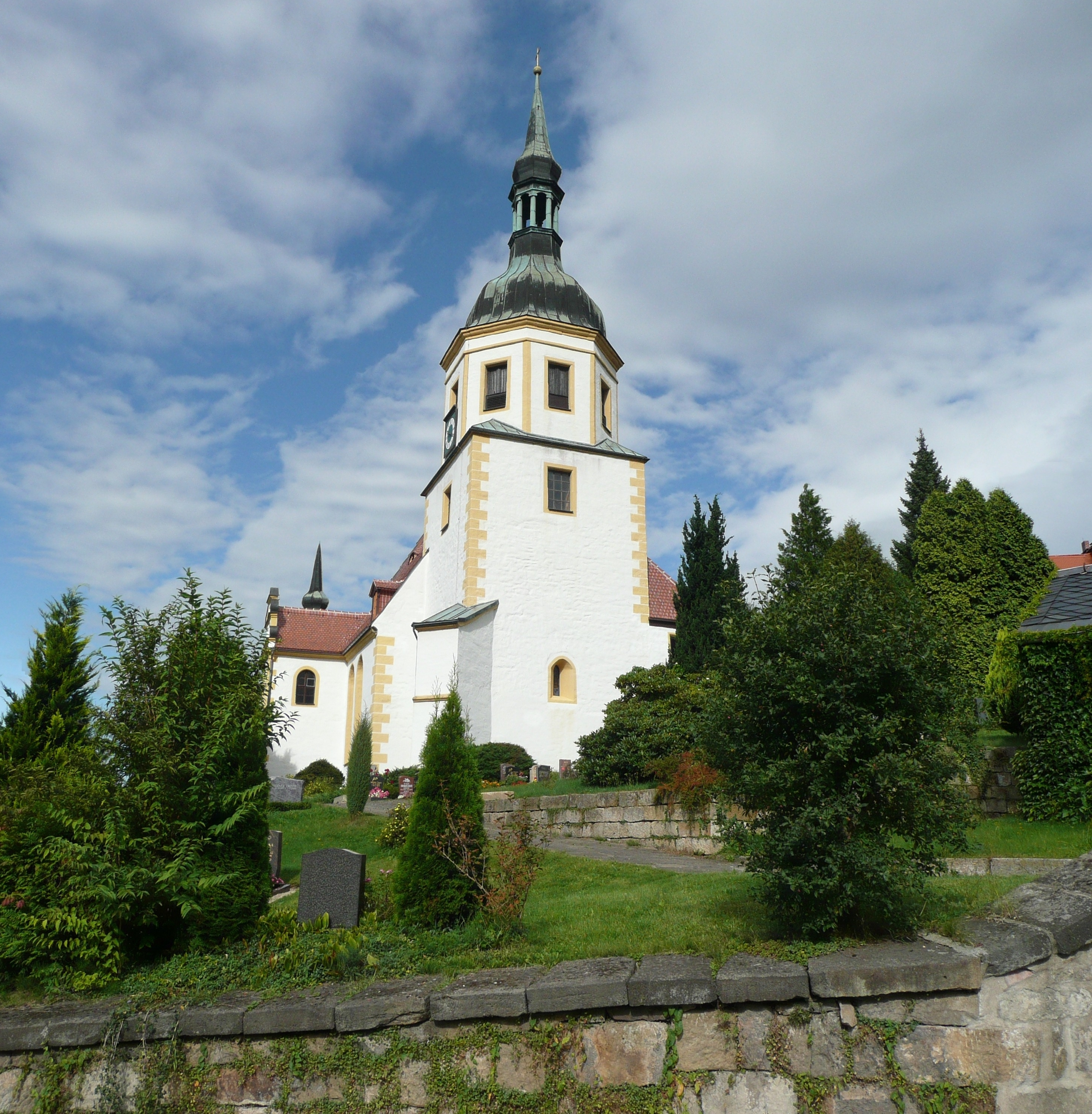 This image shows the evangelic church in Struppen.